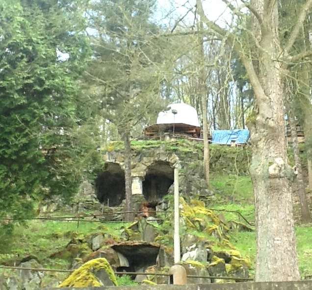 Lázně Kyselka 2014 5